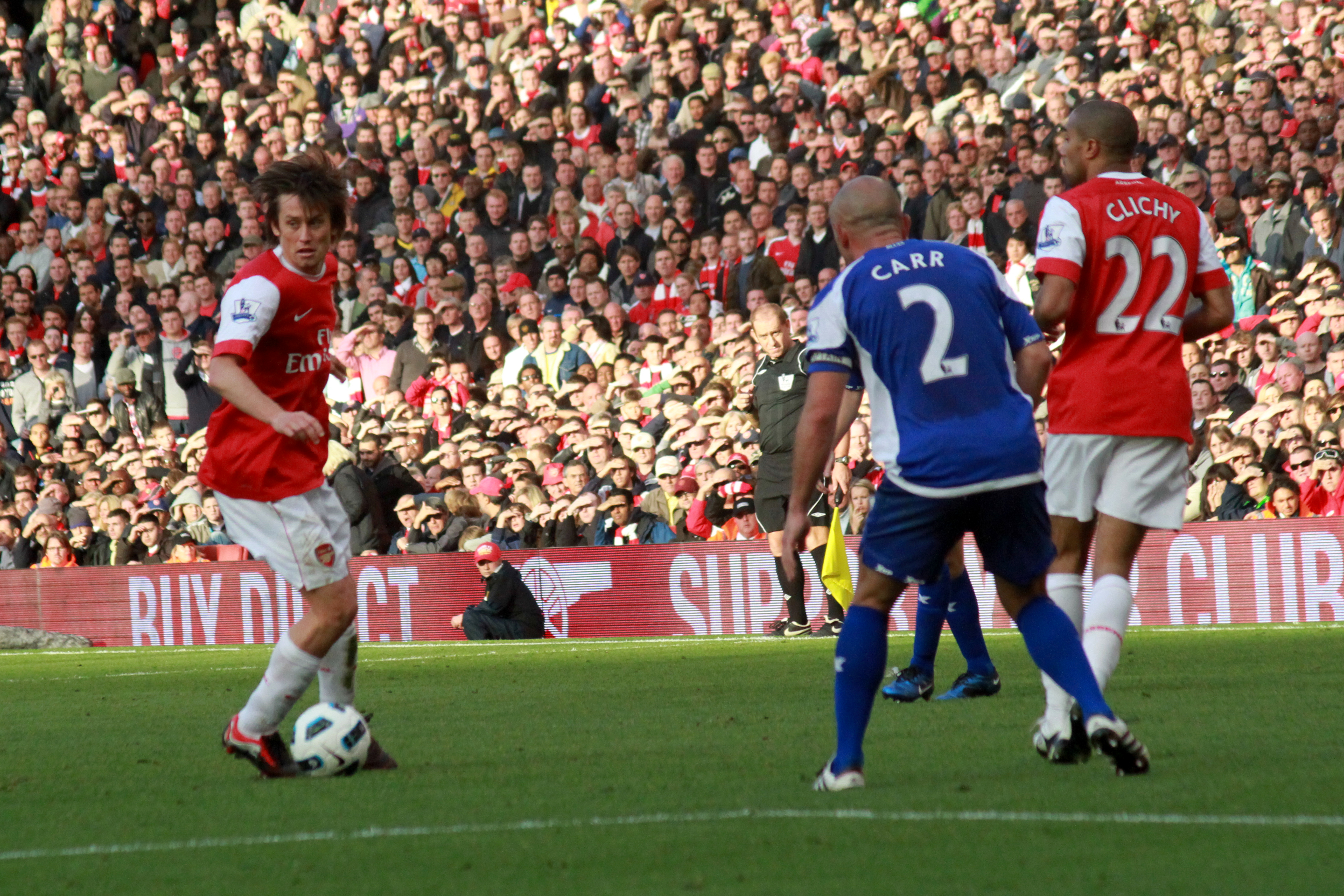 Arsenal v Birmingham City The Emirates 16 October 2010 (2-1)